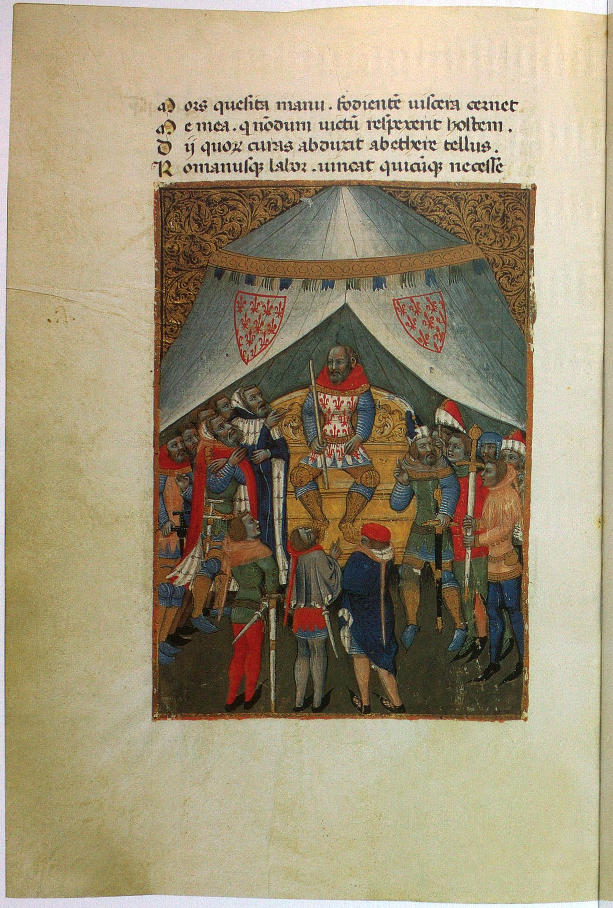 A page of a medieval manuscript of Lucan’s Pharsalia: Milan, Biblioteca Trivulziana, Ms. 691, fol. 86v. The miniature shows Julius Caesar holding a military commander’s baton in the midst of his officers.